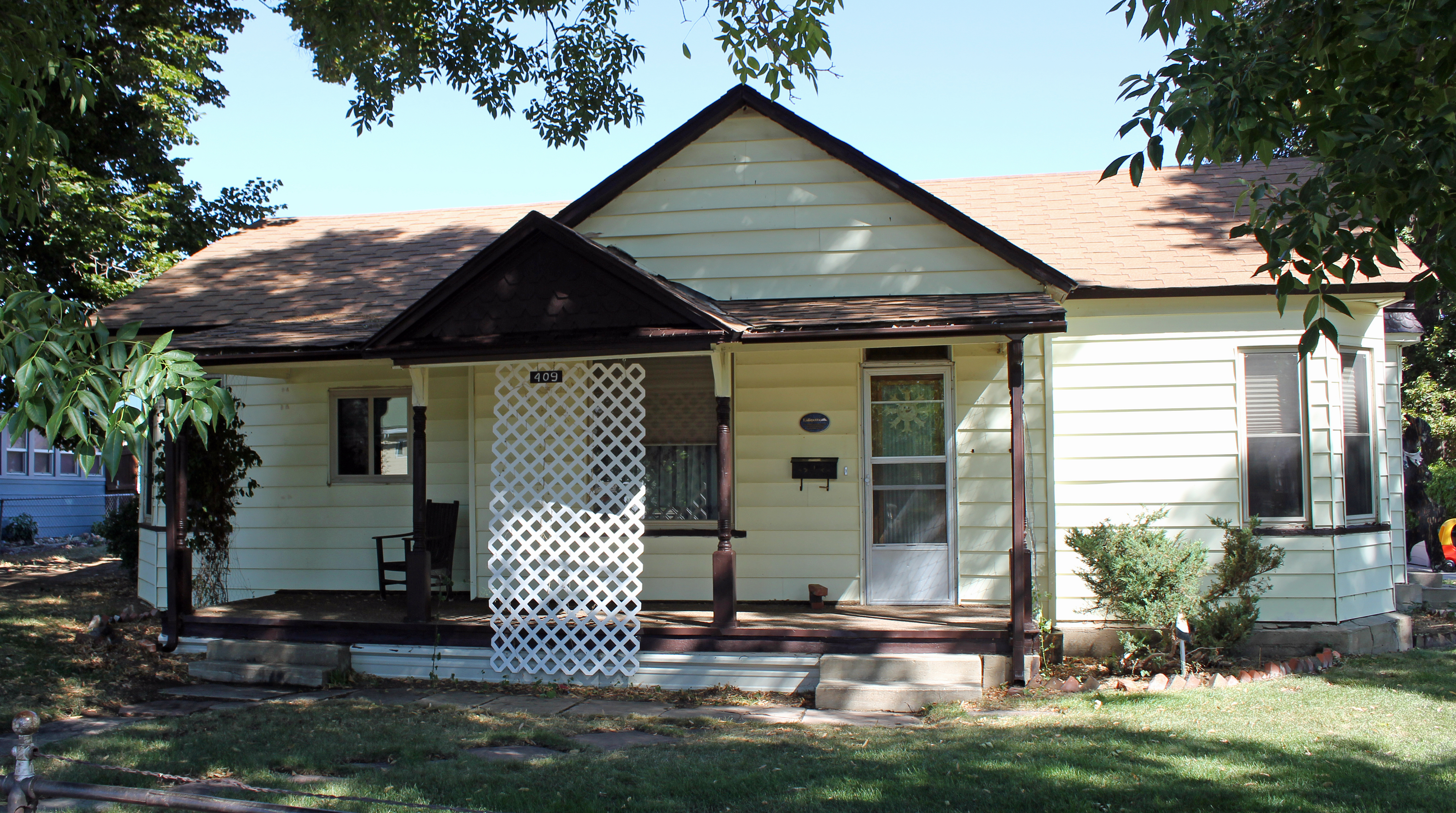 The Miller House, located at 409 East Cleveland Street in Layfayette, Colorado. The property is listed on the National Register of Historic Places. 5BL.818